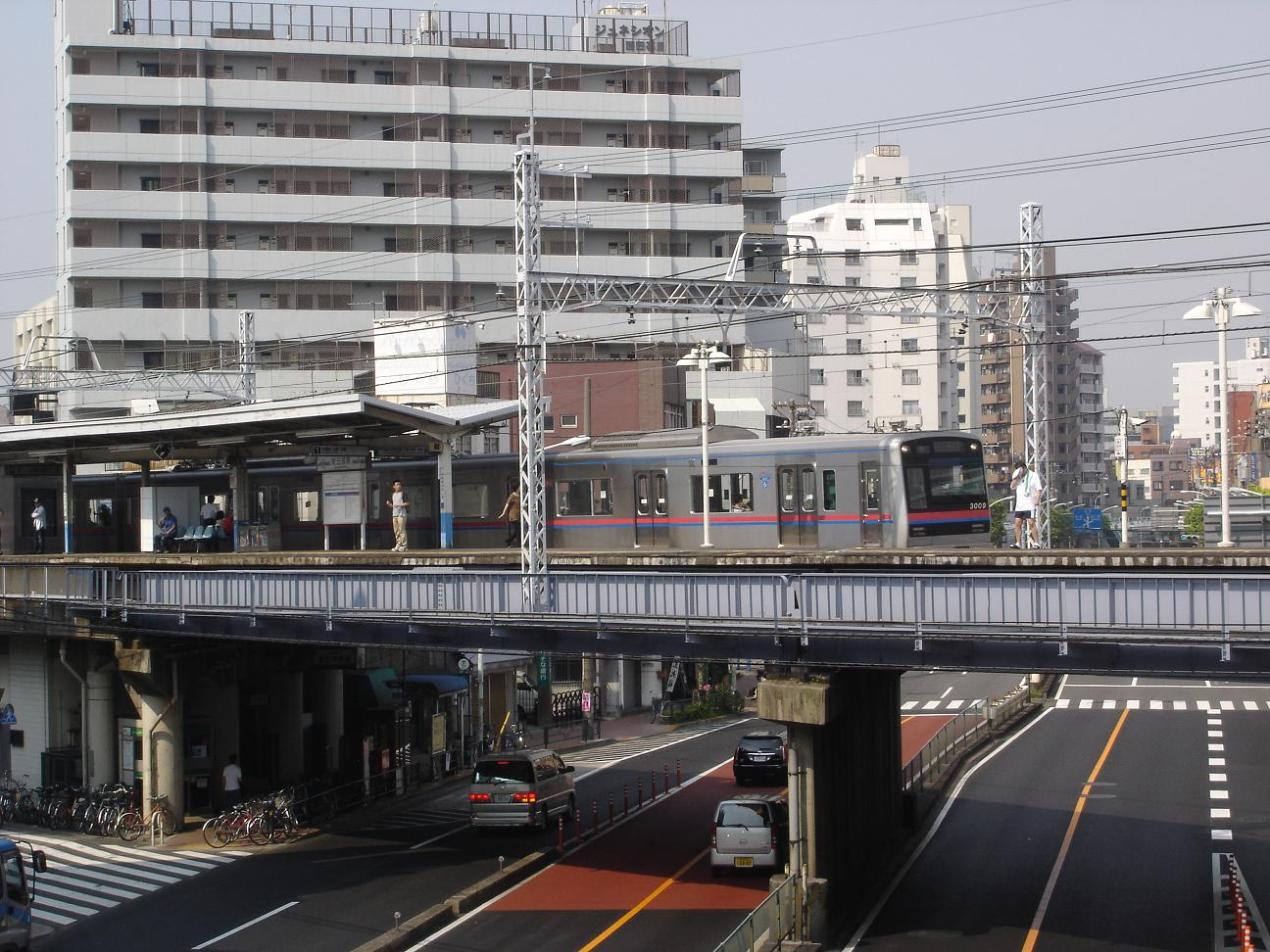 Shim-Mikawashima Station viewed from the pedestrian bridge above the Meiji-Dori Ave.